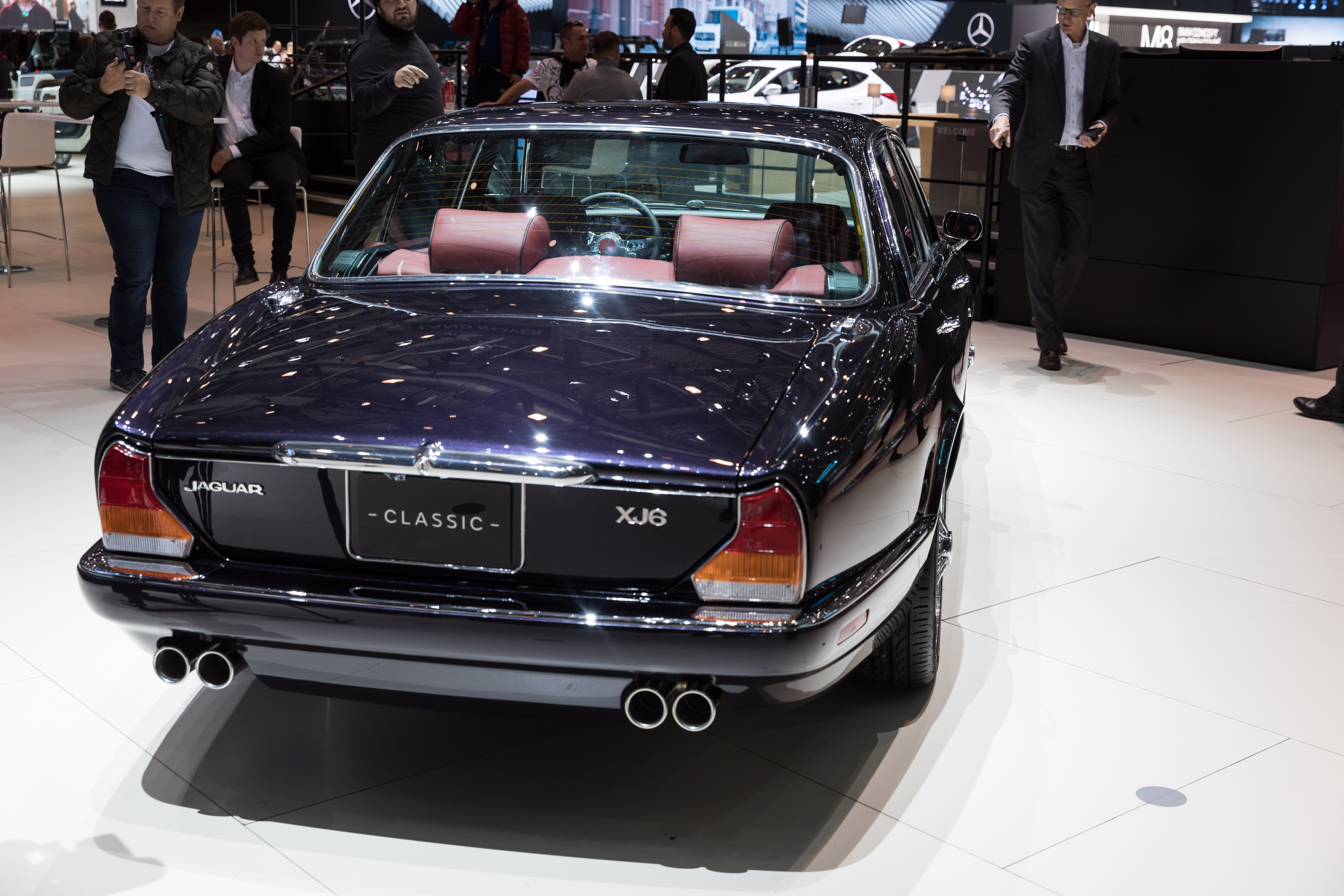 Jaguar XJ6 Greatest Hits at Geneva International Motor Show 2018